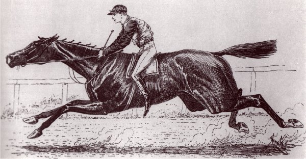 1880s drawing of Ben Ali, work is over 100 years old. low resolution